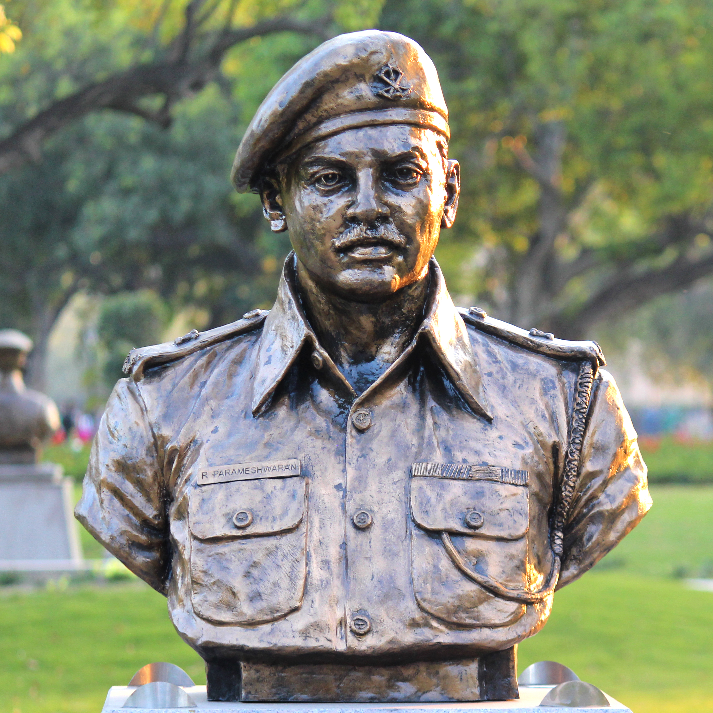 Major Ramaswamy Parameswaran's statue at Param Yodha Sthal (section for Param Vir Chakra recipients), National War Memorial, New Delhi.